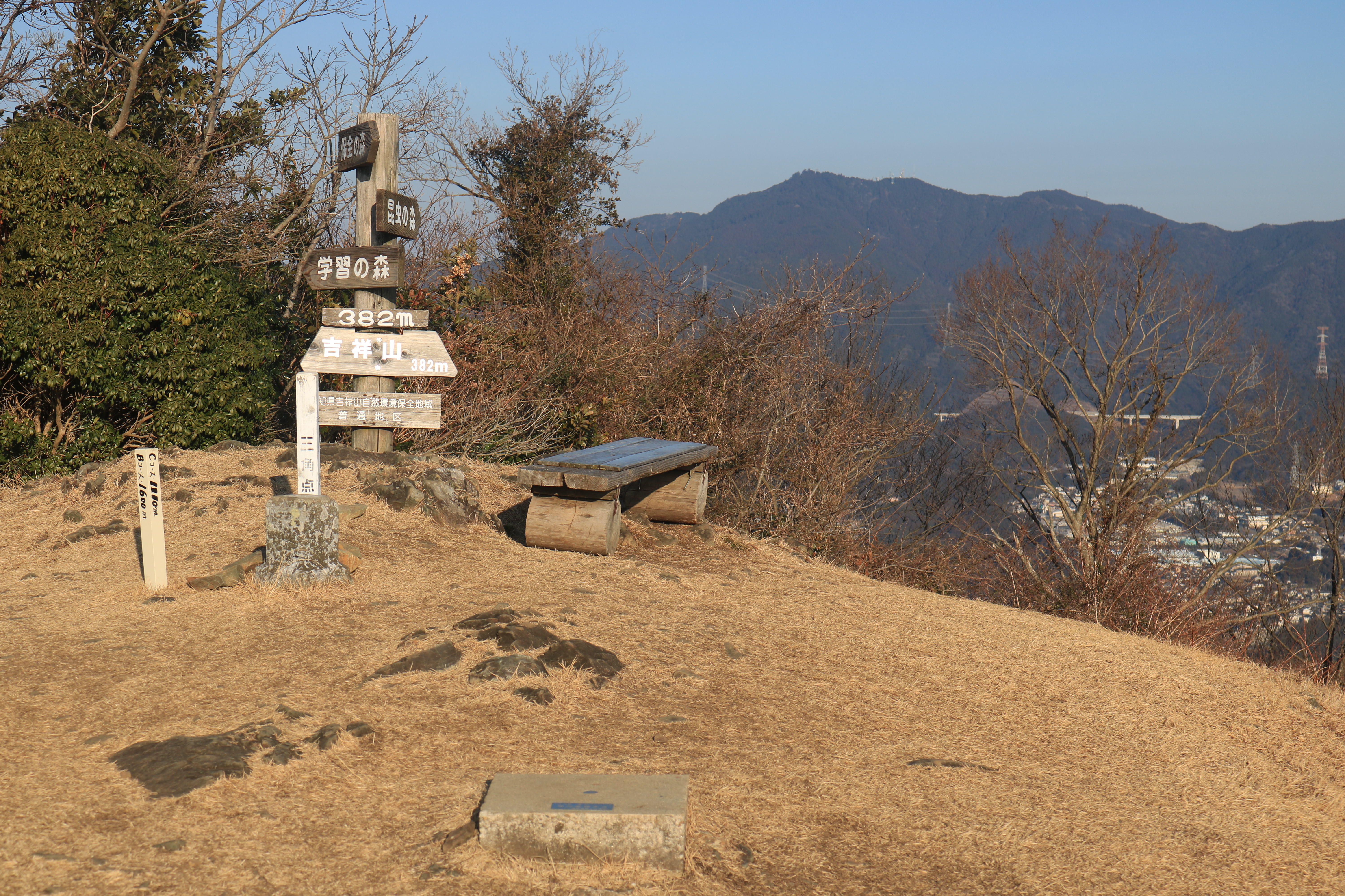 Peak of Mount Kichijo and Mount Hongu in Aichi Prefecture, Japan.